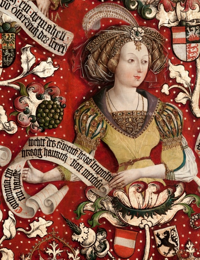 Constantia of Austria, margravine of Meissen, wife of Henry III of Meissen